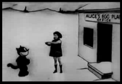 Screenshot of the silent movie "Alice's Egg Plant": Julius and Alice (Dawn Evelyn Paris).